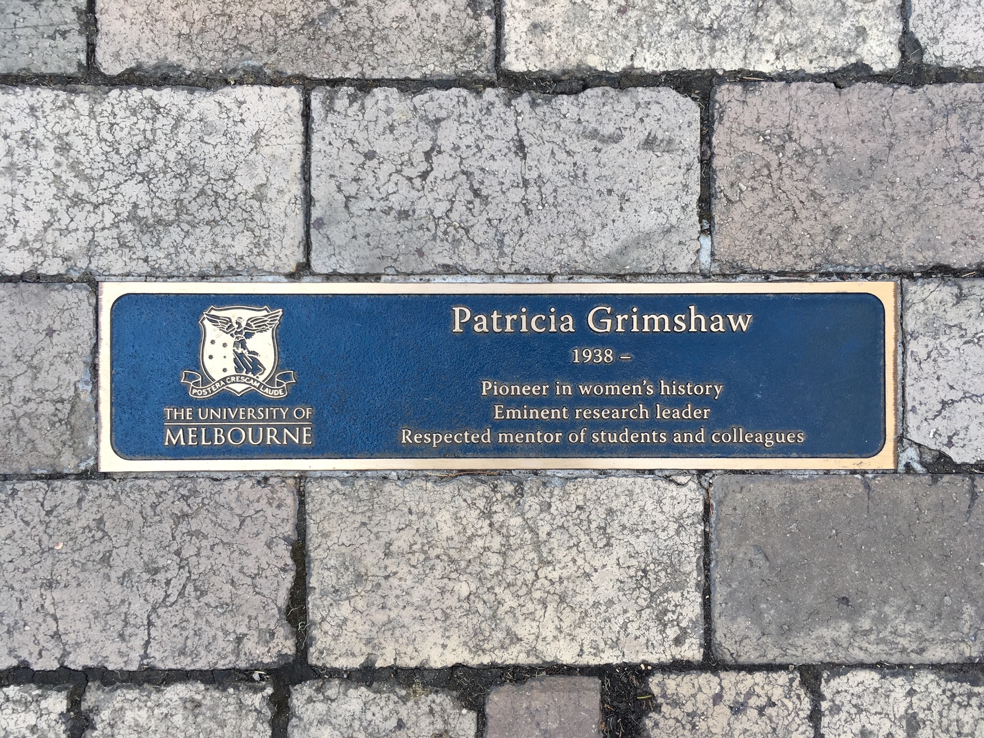 Patricia Grimshaw, University of Melbourne Award, Bronze Plaque installed in Professors Walk on the Parkville campus. The award honours 'individuals who have made an outstanding and enduring contribution to the University and its scholarly community'.